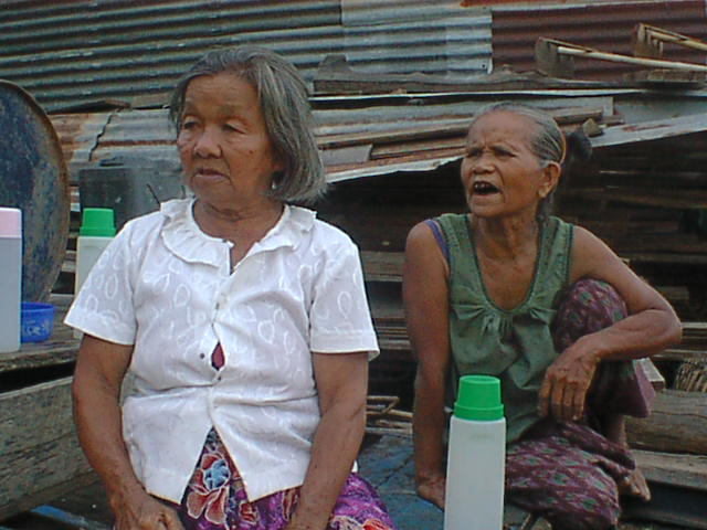 Cheun Ayuklai from Ban Dongphayom visiting her cousin Pin in Mae Raka. Pin is chewing betel-nut seeds.